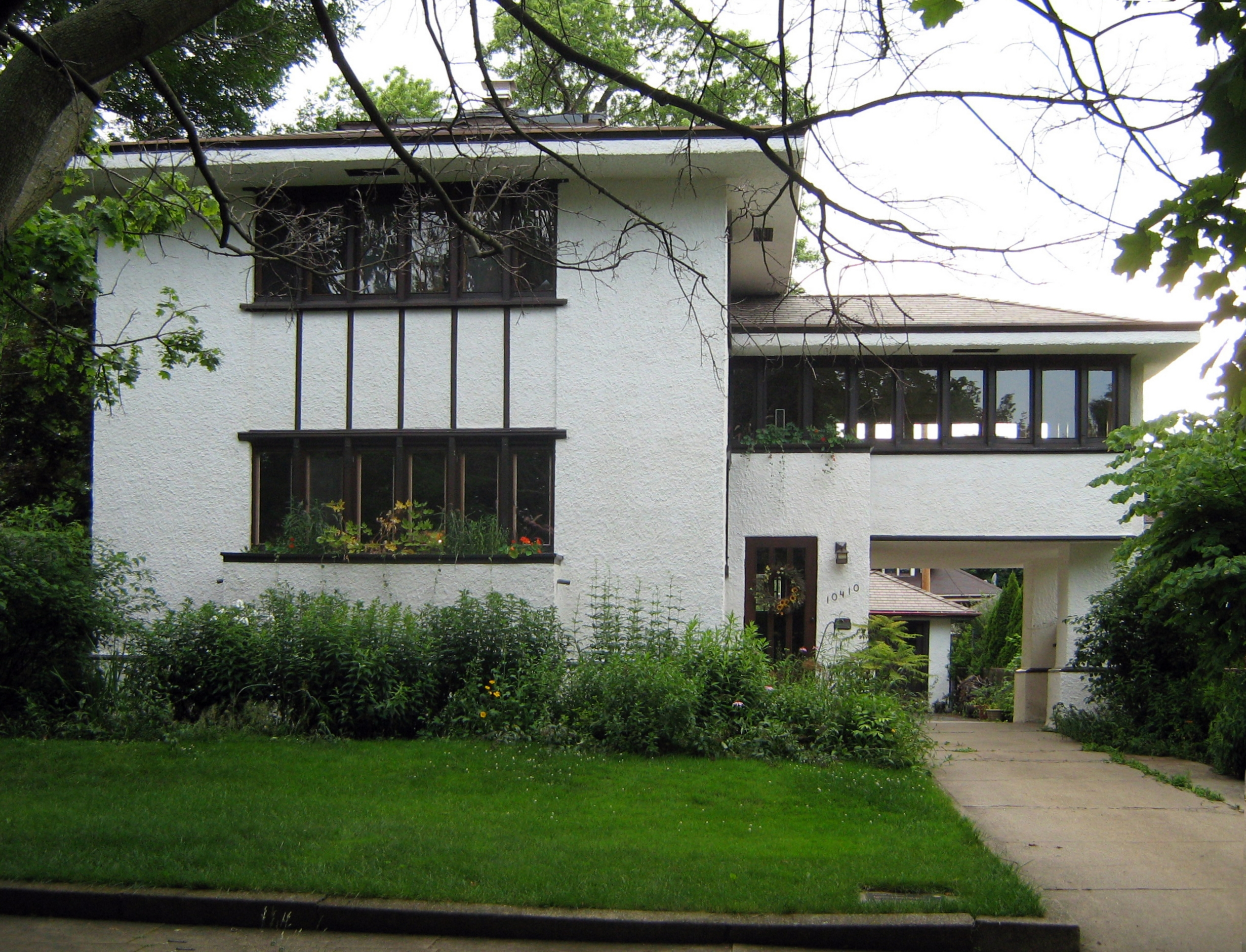 Guy C. Smith House (1917), an American System Built Home 10410 S Hoyne Ave Chicago, IL 60643 Architect: Frank Lloyd Wright